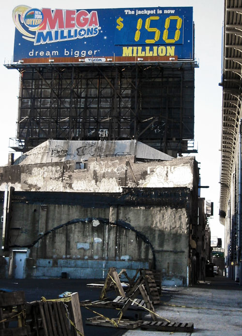 The mega lotto billboard at 125th street.